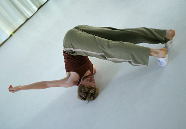 Christian Felber: dance on the floor